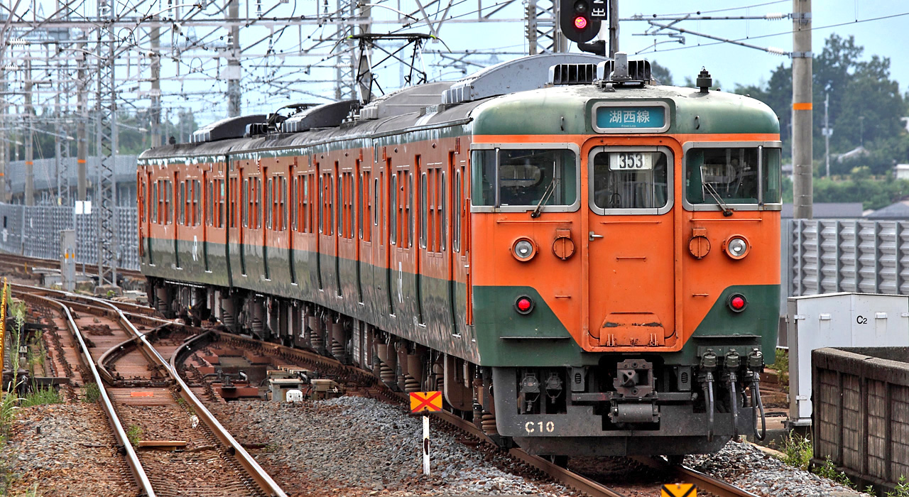 JNR 113 series EMU of JR West, at Ōmi-Maiko Sta.